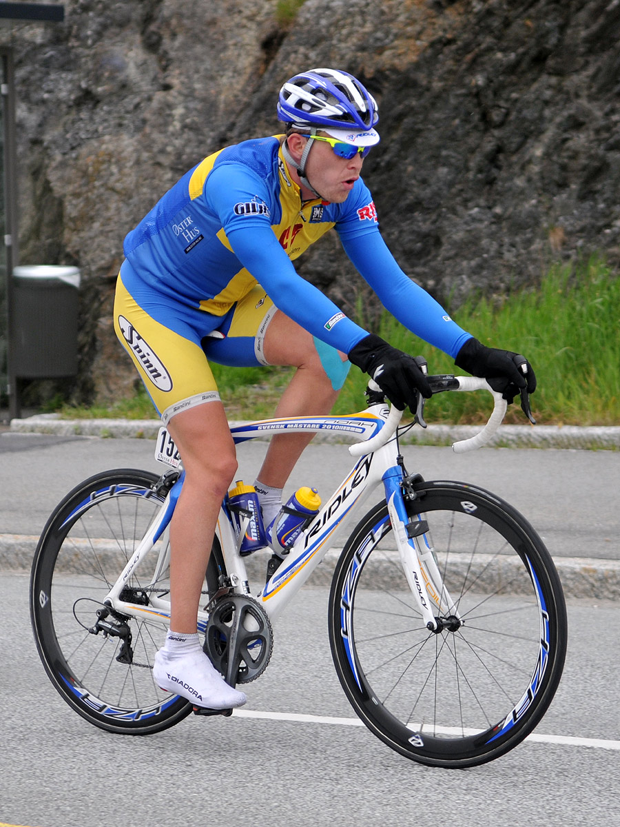 Michael Stevenson, in the Swedish Champion jersey, at Rogaland Grand Prix in Stavanger 2011.